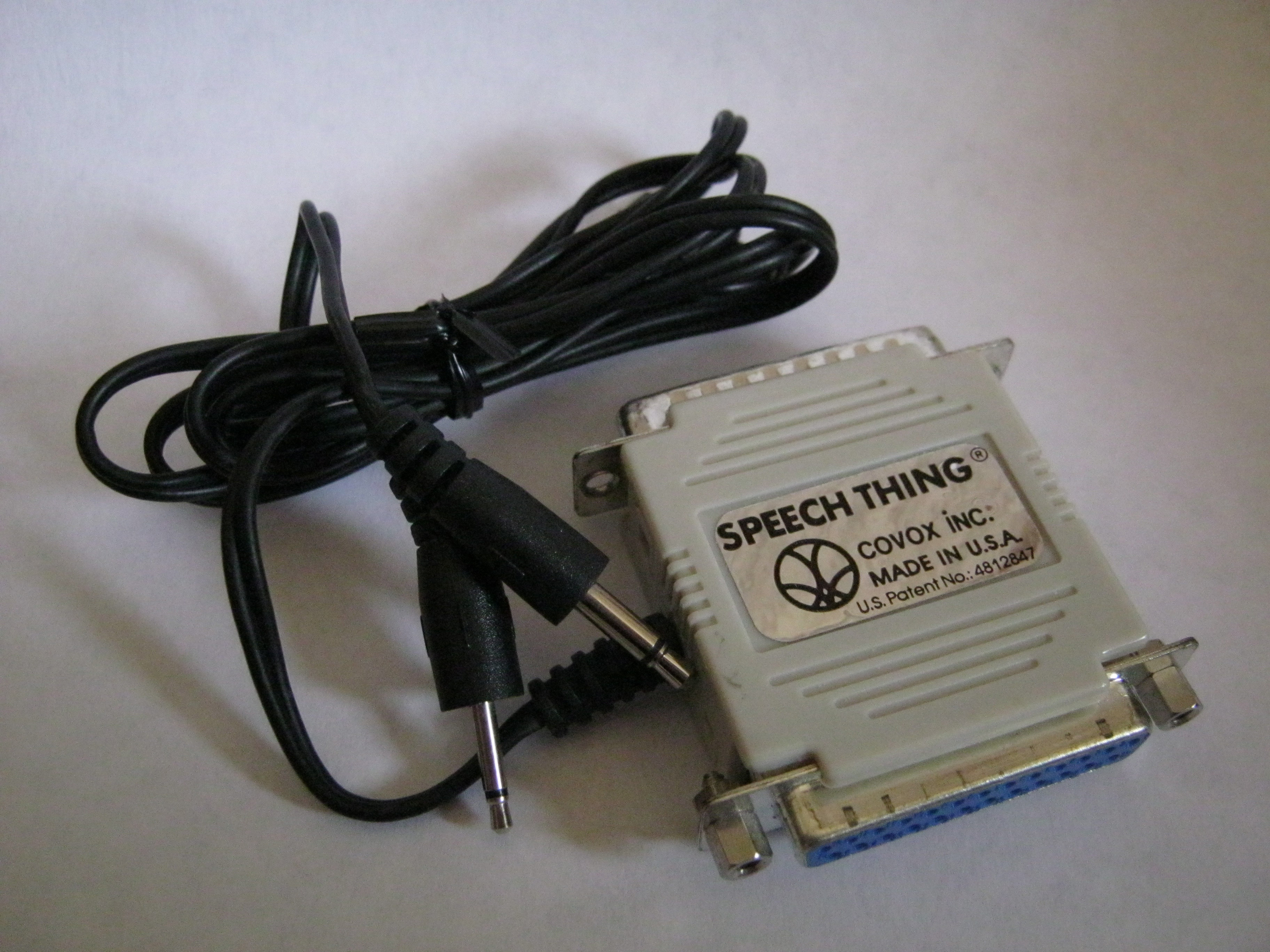 Photograph of the Covox Speech Thing (aka Covox plug) released in 1986 by Covox, Inc of Eugene, Oregon. It is an external audio device attached to the parallel port of an IBM-compatible PC to output digital sound.